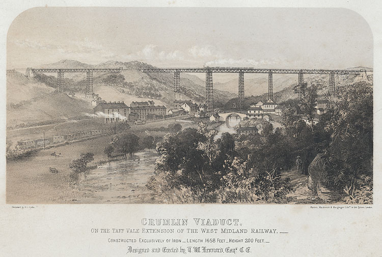 1 print : lithograph (tinted), b&w ; image size 123 x 230 mm, paper size 216 x 323 mm.